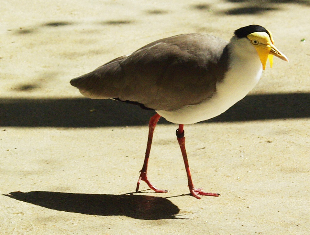 Masked Lapwing (Vanellus miles) at Zoo Duisburg, Germany